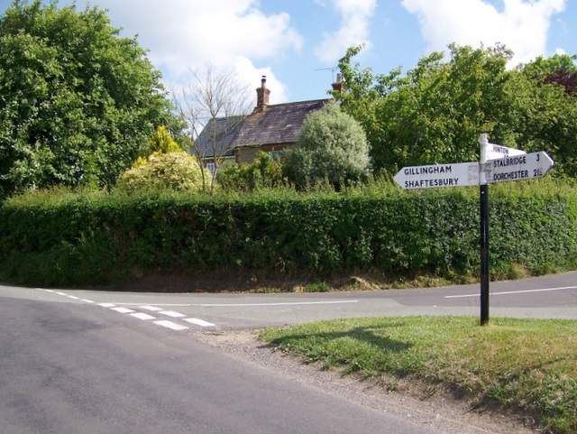 Road junction, Pleck The sign post stands on a small grass triangle in the centre of the junction.